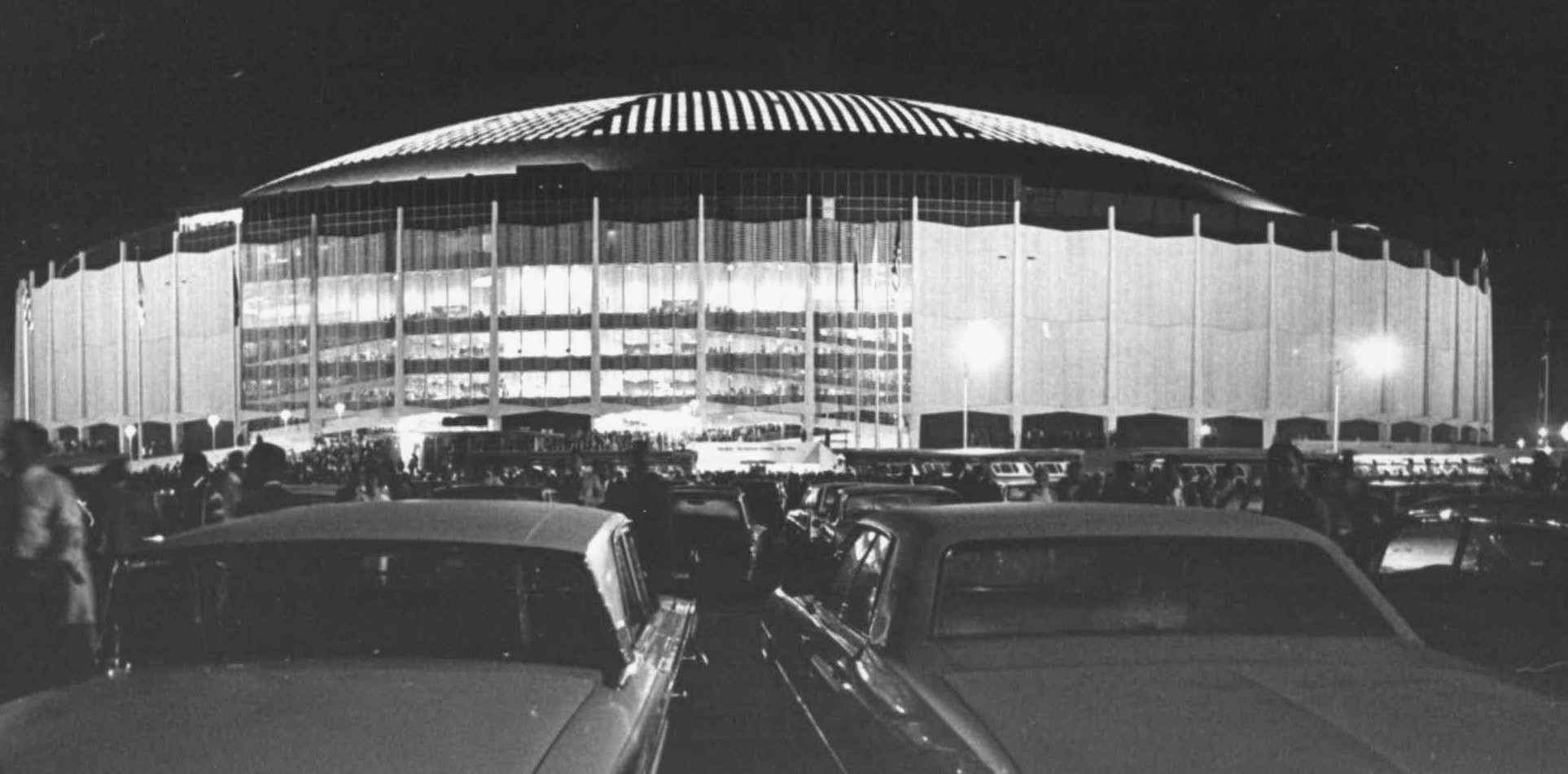 The Astrodome stadium in Houston, Texas